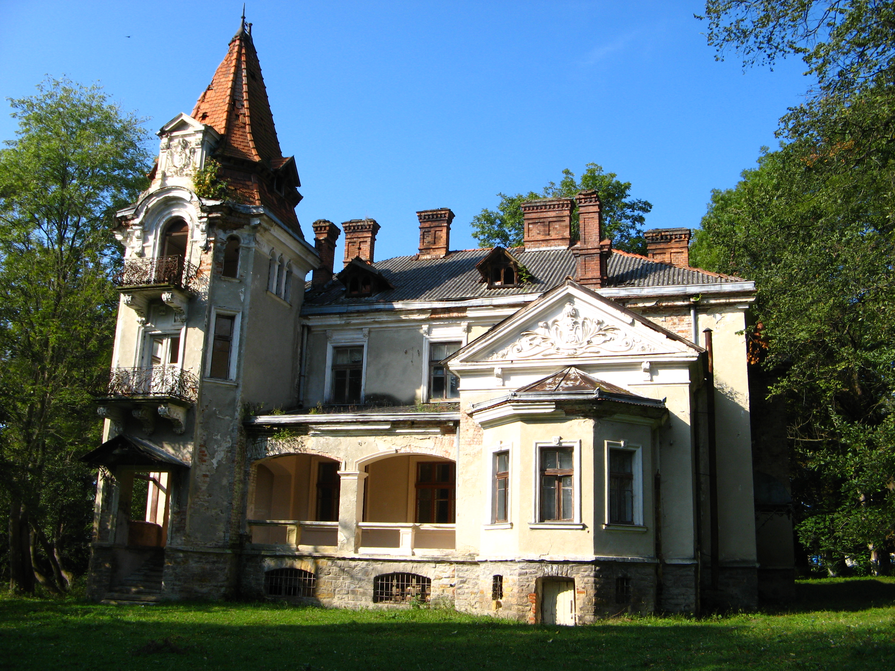 Palace in Nyzhankovychi (Ukraine)